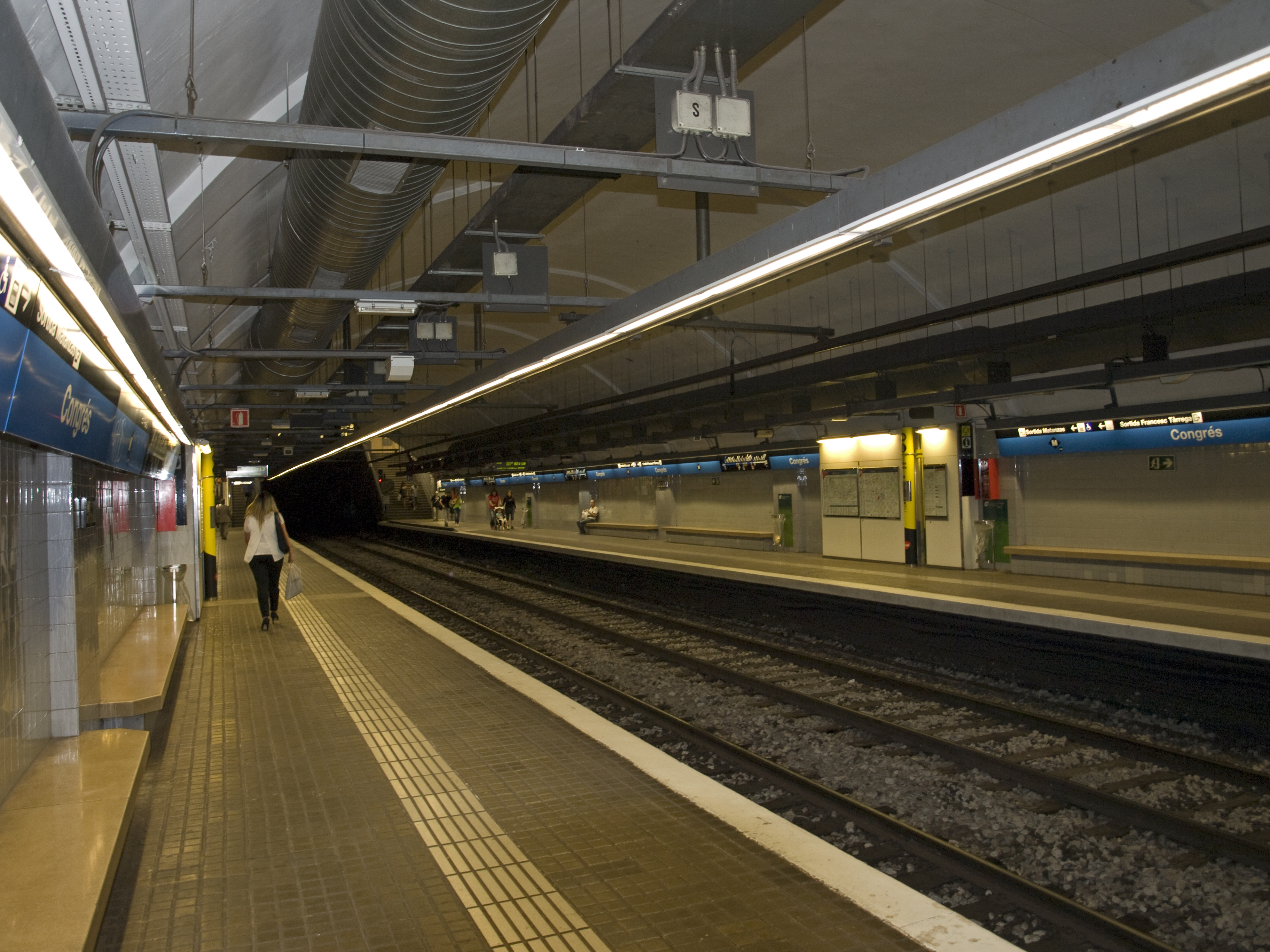 Congrés station platforms, line L5, Barcelona Metro, taken from the eastbound platform (direction Vall d'Hebron)